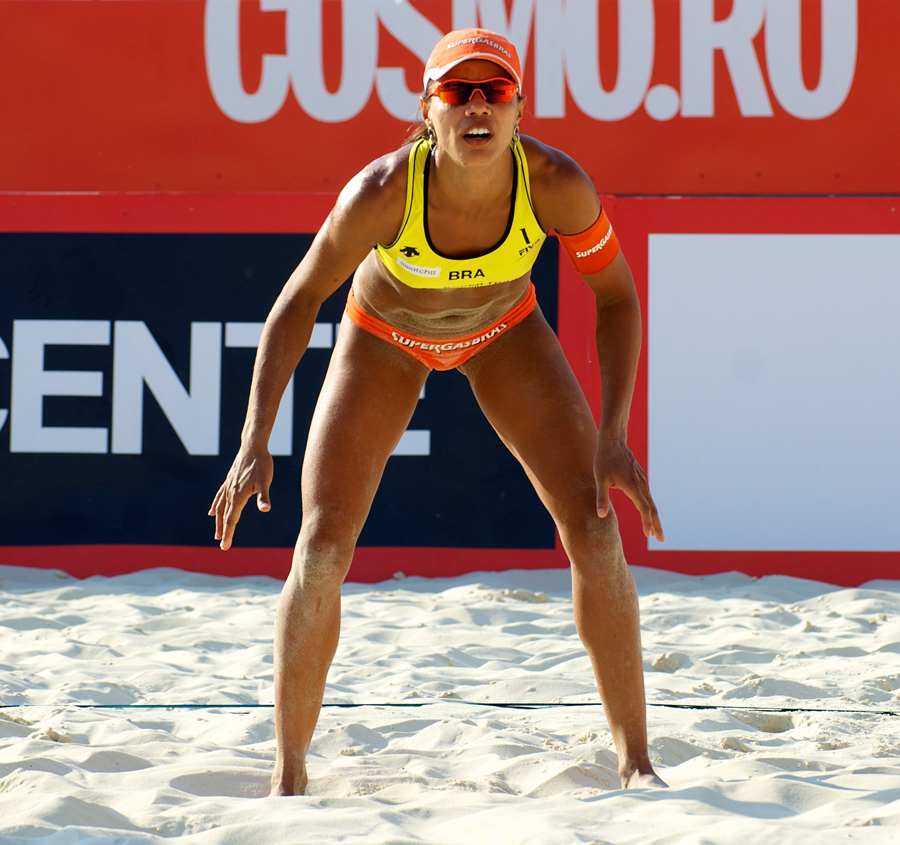 Grand Slam Moscow 2011